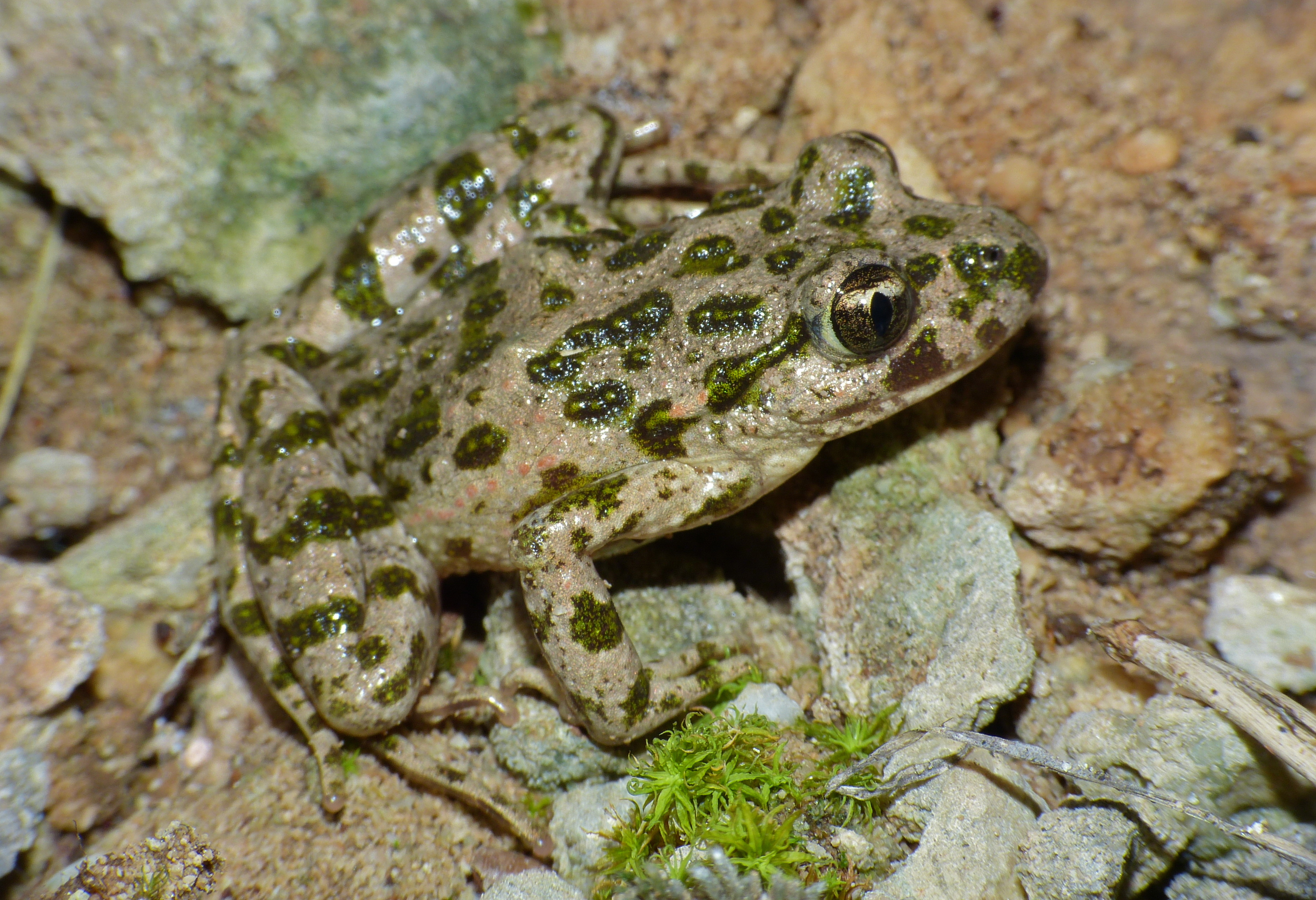 Les Rives, Hérault, FRANCE (Found by Jean NICOLAS)